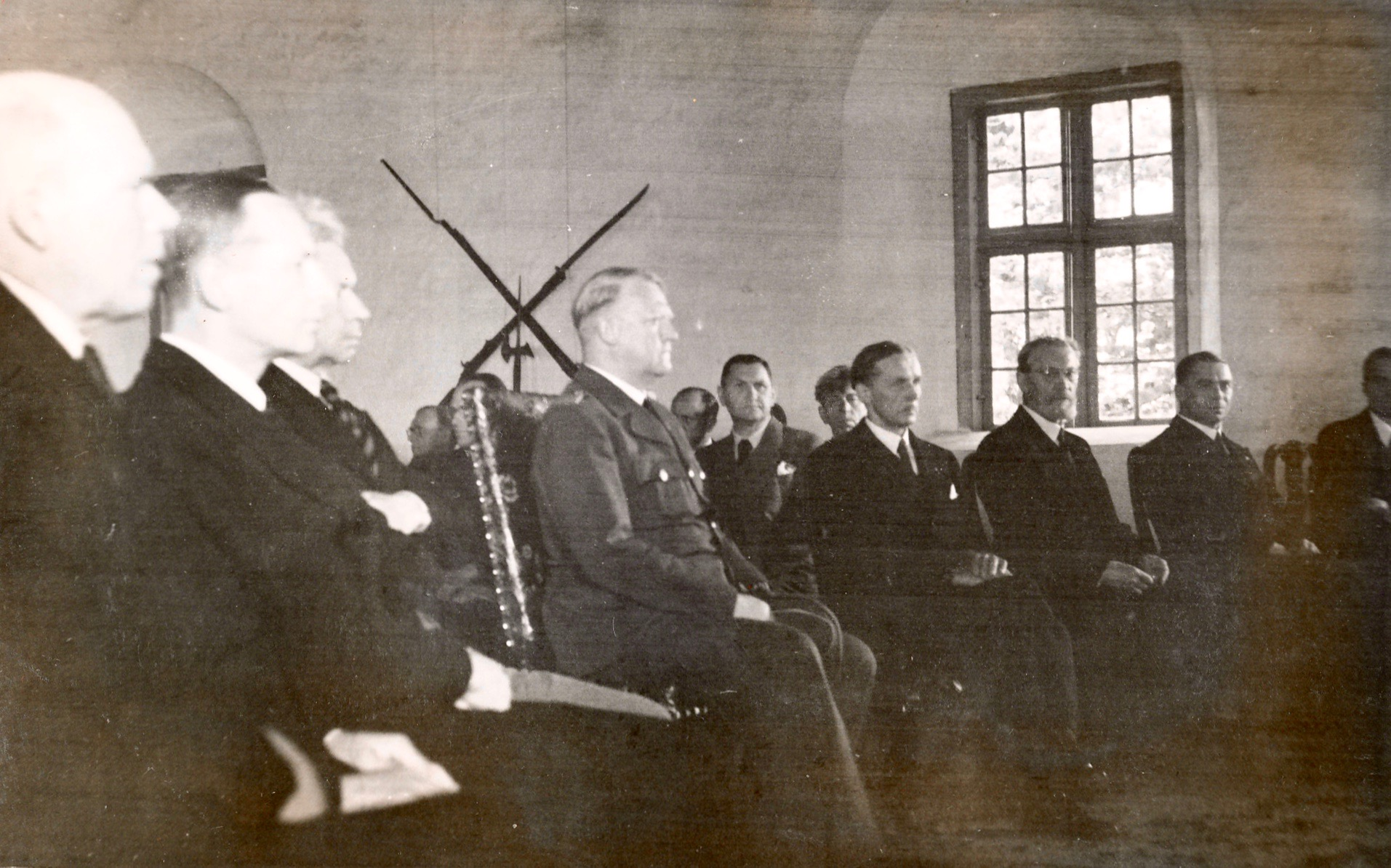 Cropped version of File:Vidkun Quisling m.fl. (8612408877).jpg